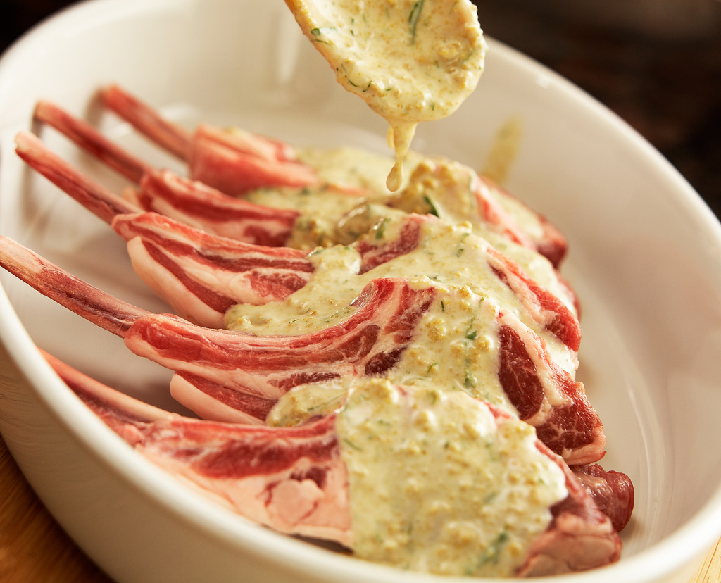 Thai Green Curry Lamb Cutlets 1of4